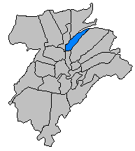 Map of Luxembourg City, Luxembourg, with the boundaries of the city's twenty-four quarters demarcated and the quarter of Weimerskirch highlighted in blue.